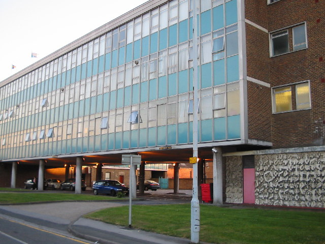 "The Office", Slough Trading Estate